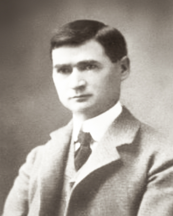 A photograph of editor and publisher John F. Carroll from the National Cyclopaedia of American Biography, 1922.